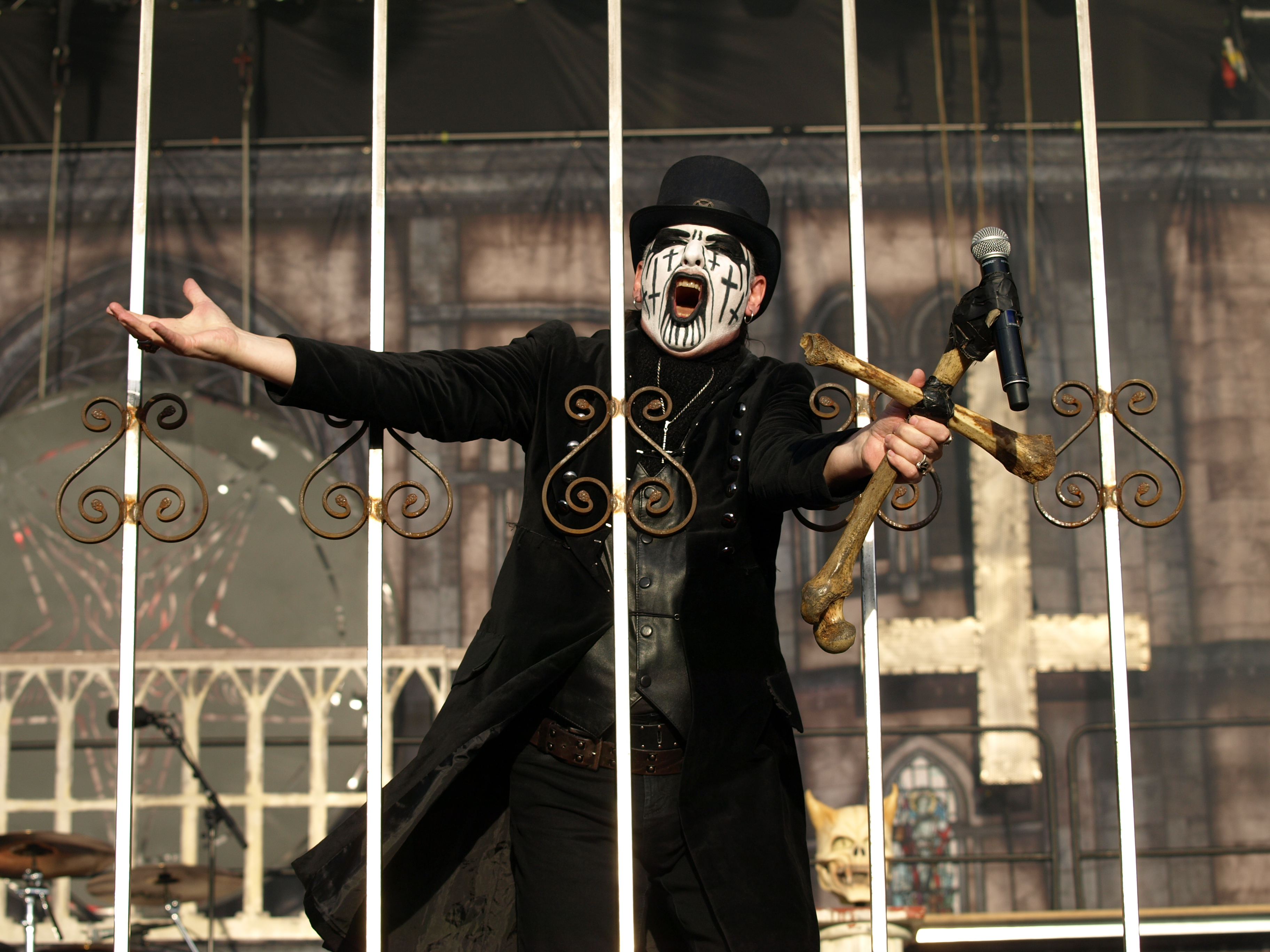 King Diamond and his band live at Tuska Open Air 2013